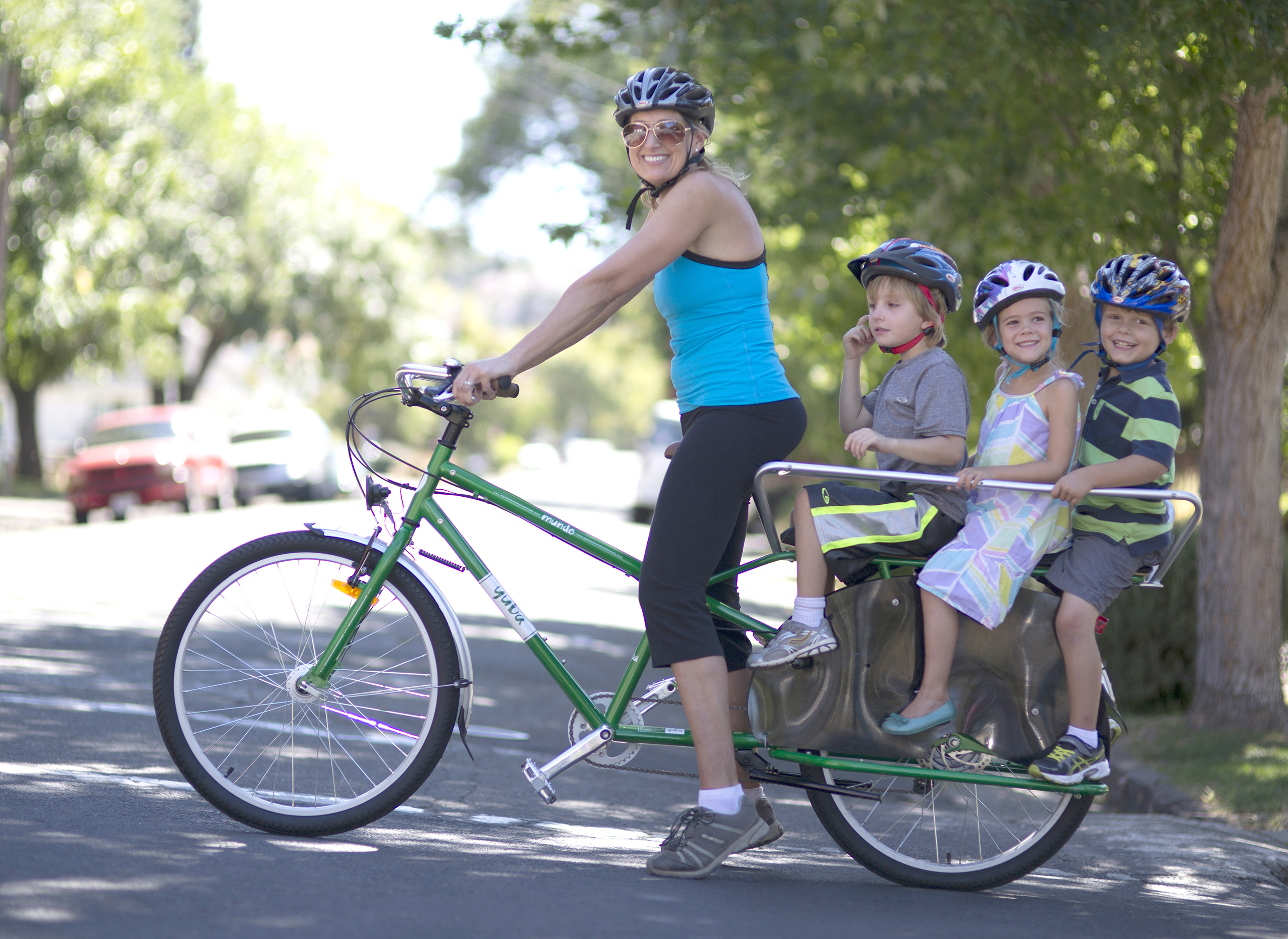 Yuba Mundo Cargo Bike with 4 riders. Monkey Bars (pictured) are an add-on that creates a structure for the children to sit in.